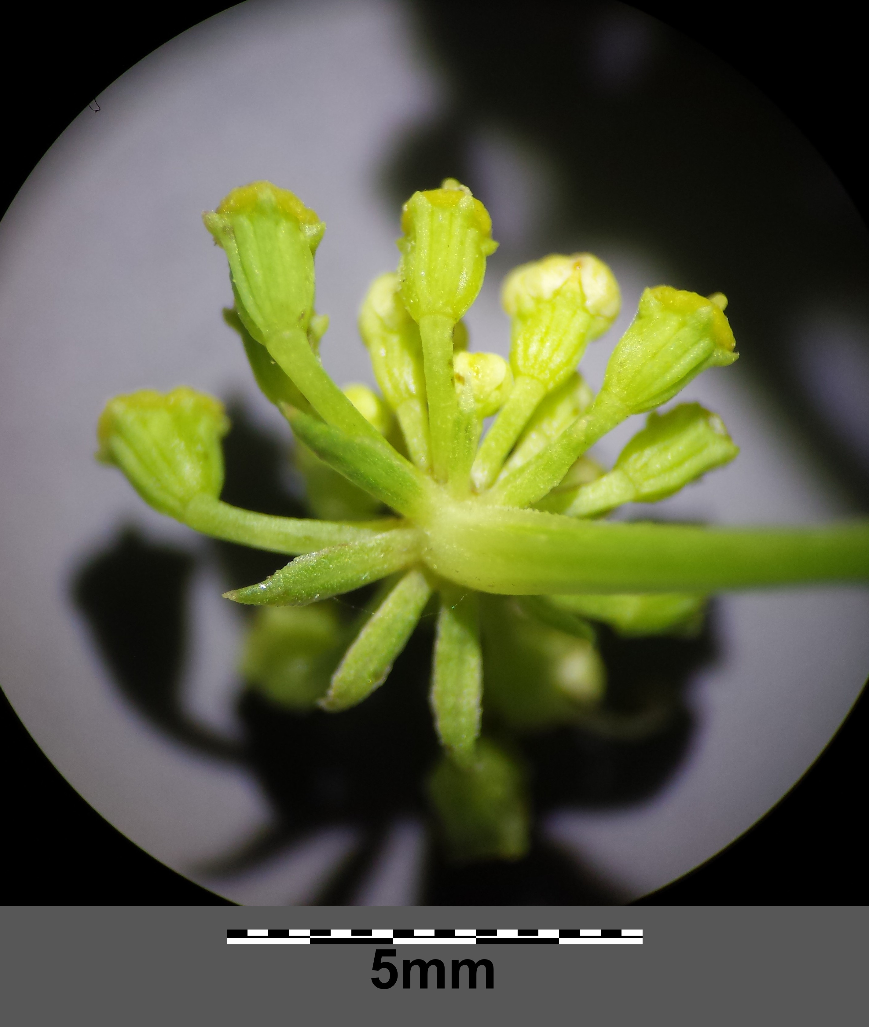 Umbellet with bracteoles Taxonym: Peucedanum alsaticum ss Fischer et al. EfÖLS 2008 ISBN 978-3-85474-187-9 Location: Steinberg near Niederhollabrunn, district Korneuburg, Lower Austria - ca. 375 m a.s.l. Habitat: semi-dry grassland